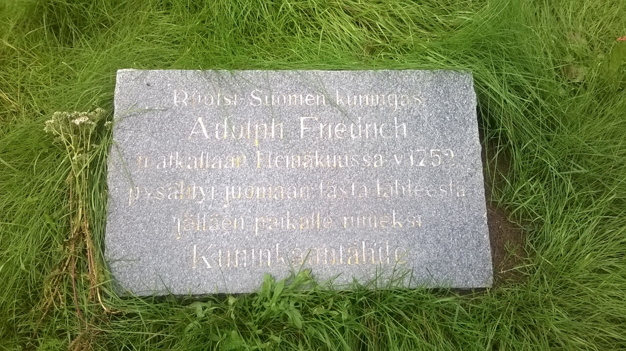 Memorial stone at Kuninkaanlähde in Kankaanpää, Finland.